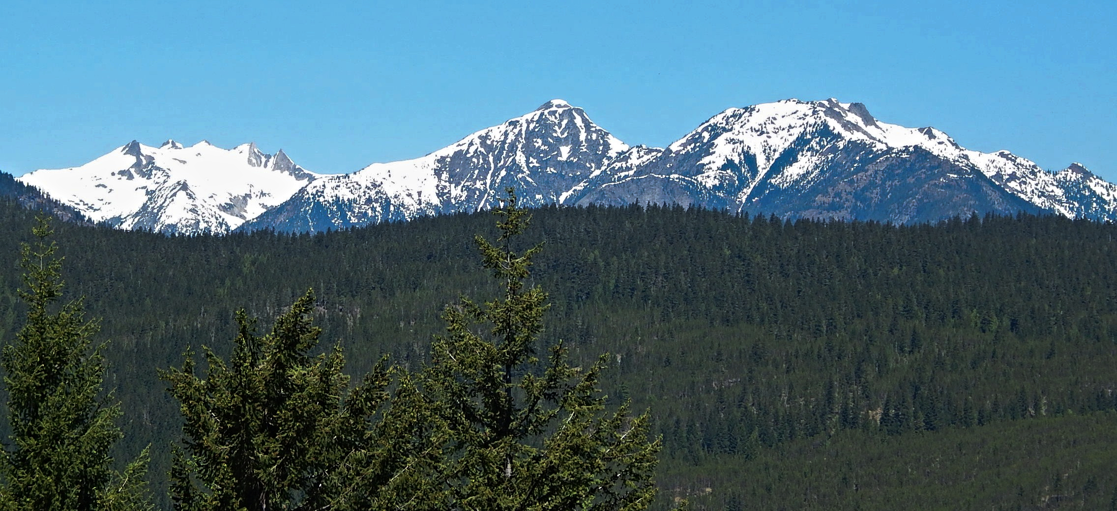 Mount Prophet 7660', Genesis 7244' and Chaos 6532' two peaks inNorth Cascades National Park, Washington as seen from the North cascades Highway